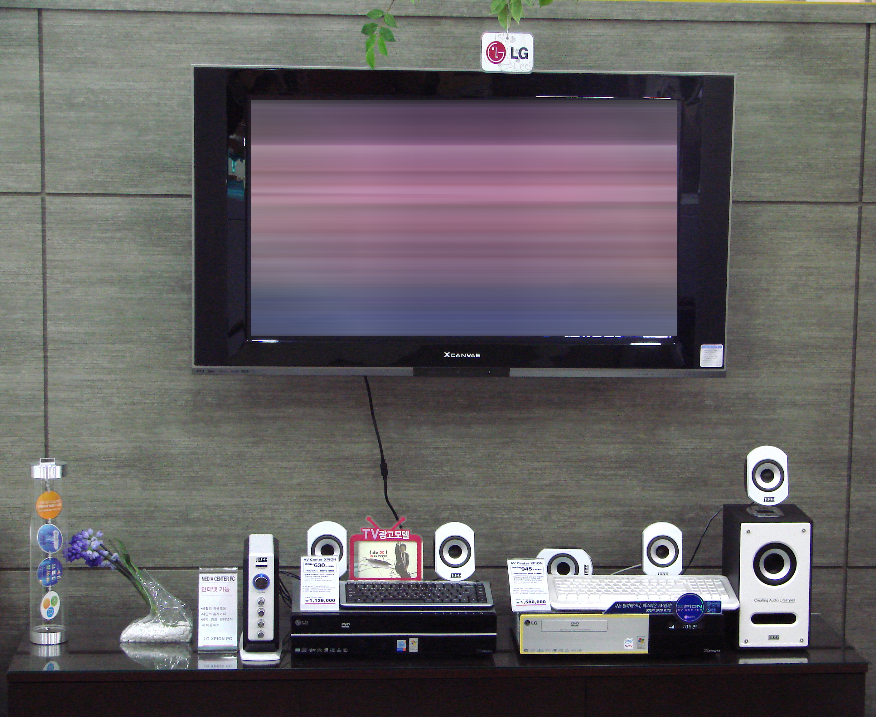 Display products at a shop.